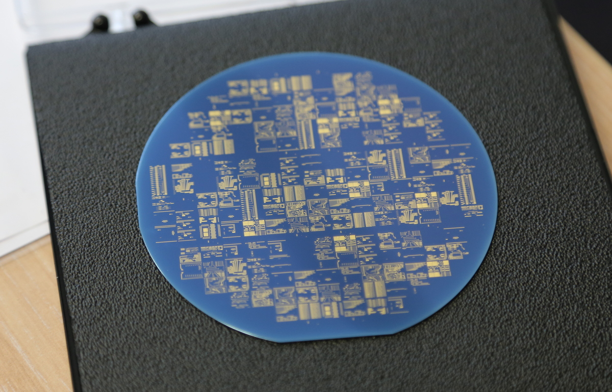 This is a close-up of a multi-project wafer. In order to reduce development costs, start-up companies submit their chip designs at the same time and share the wafer "real estate" reducing costs by about 20 times. This Multi-project wafer approach has been pioneered by based in Eindhoven, The Netherlands